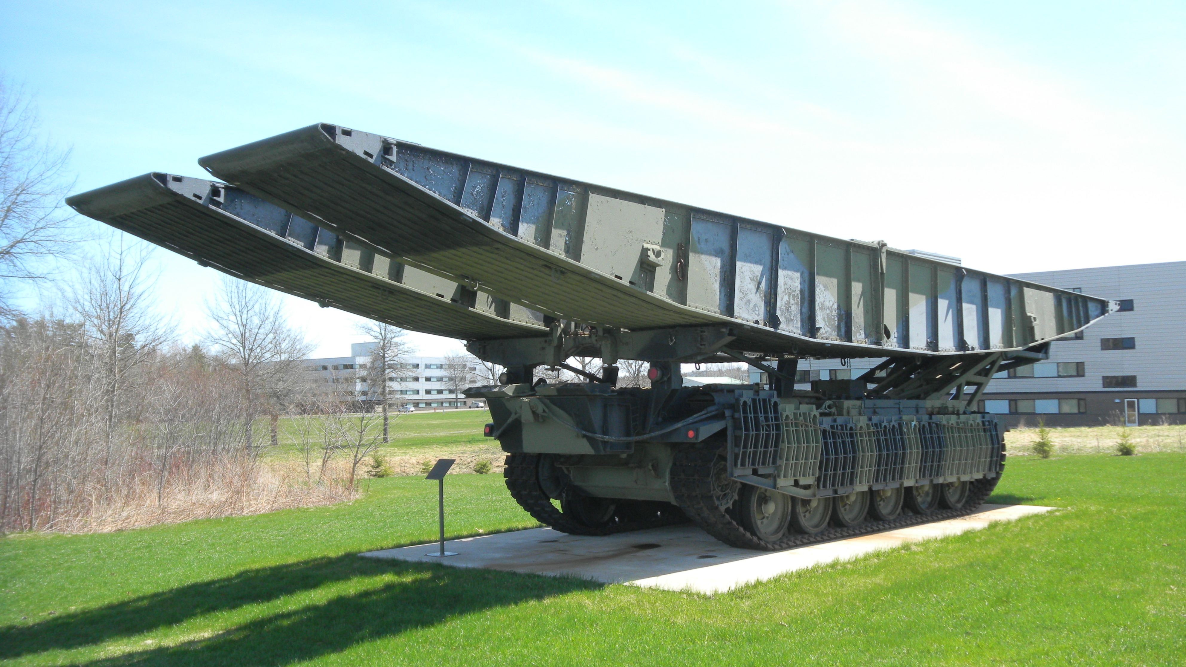 Centurion Bridgelayer, 5 Canadian Division Support Group Gagetown, New Brunswick